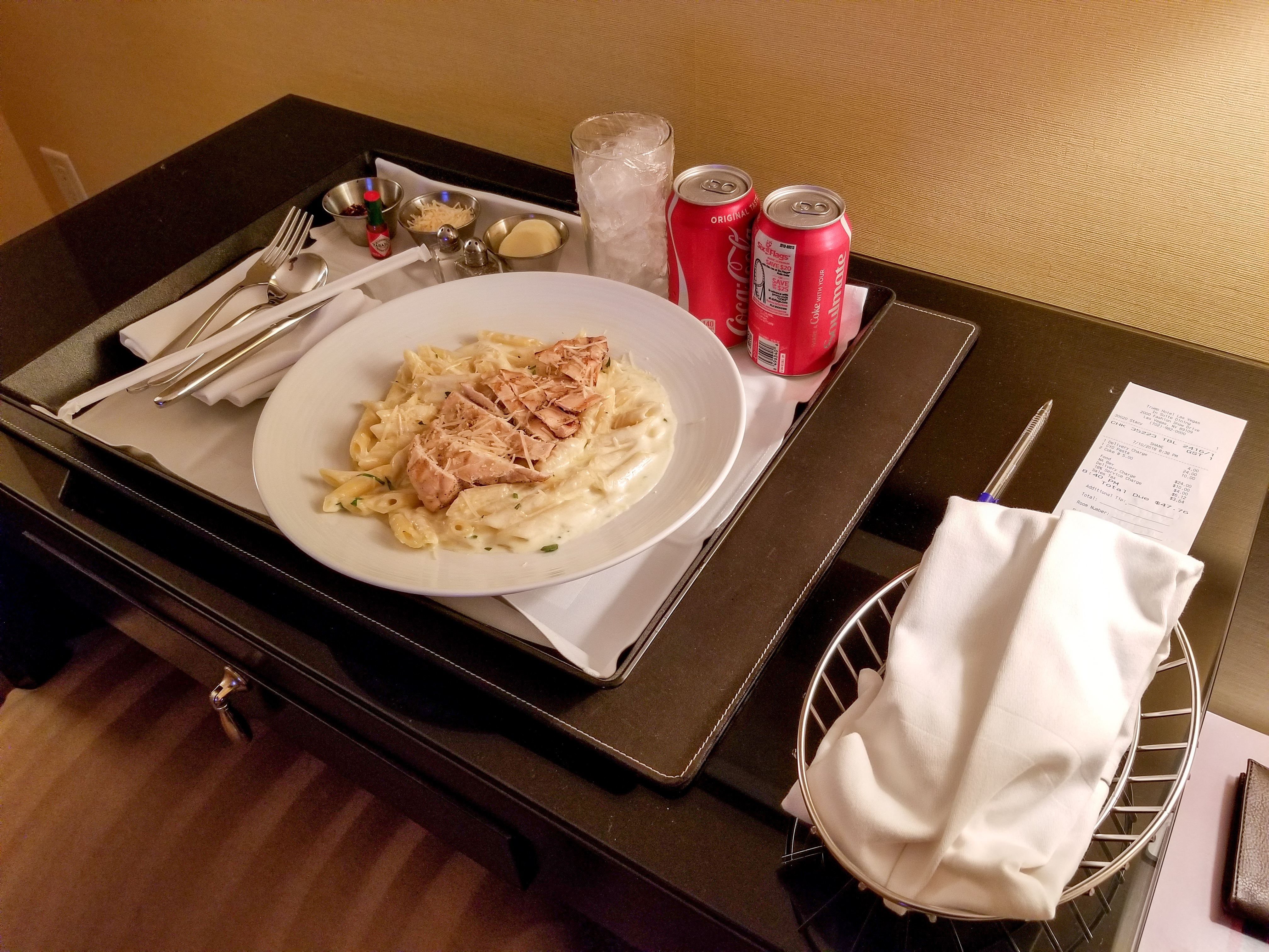 Very, very tasty, and professionally delivered.